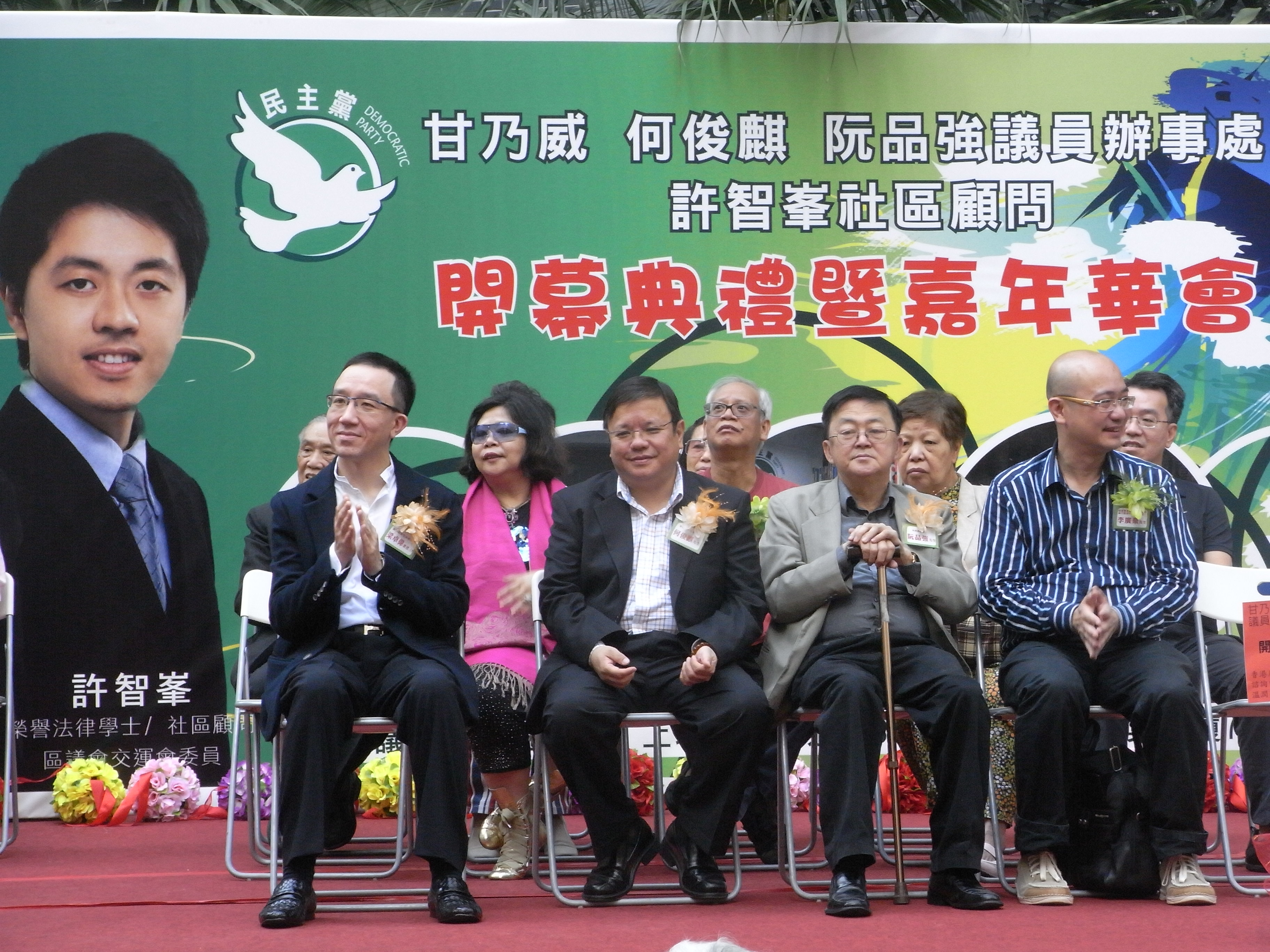 zh:2010年zh:11月 香港民主黨 許智峰 開幕禮台上